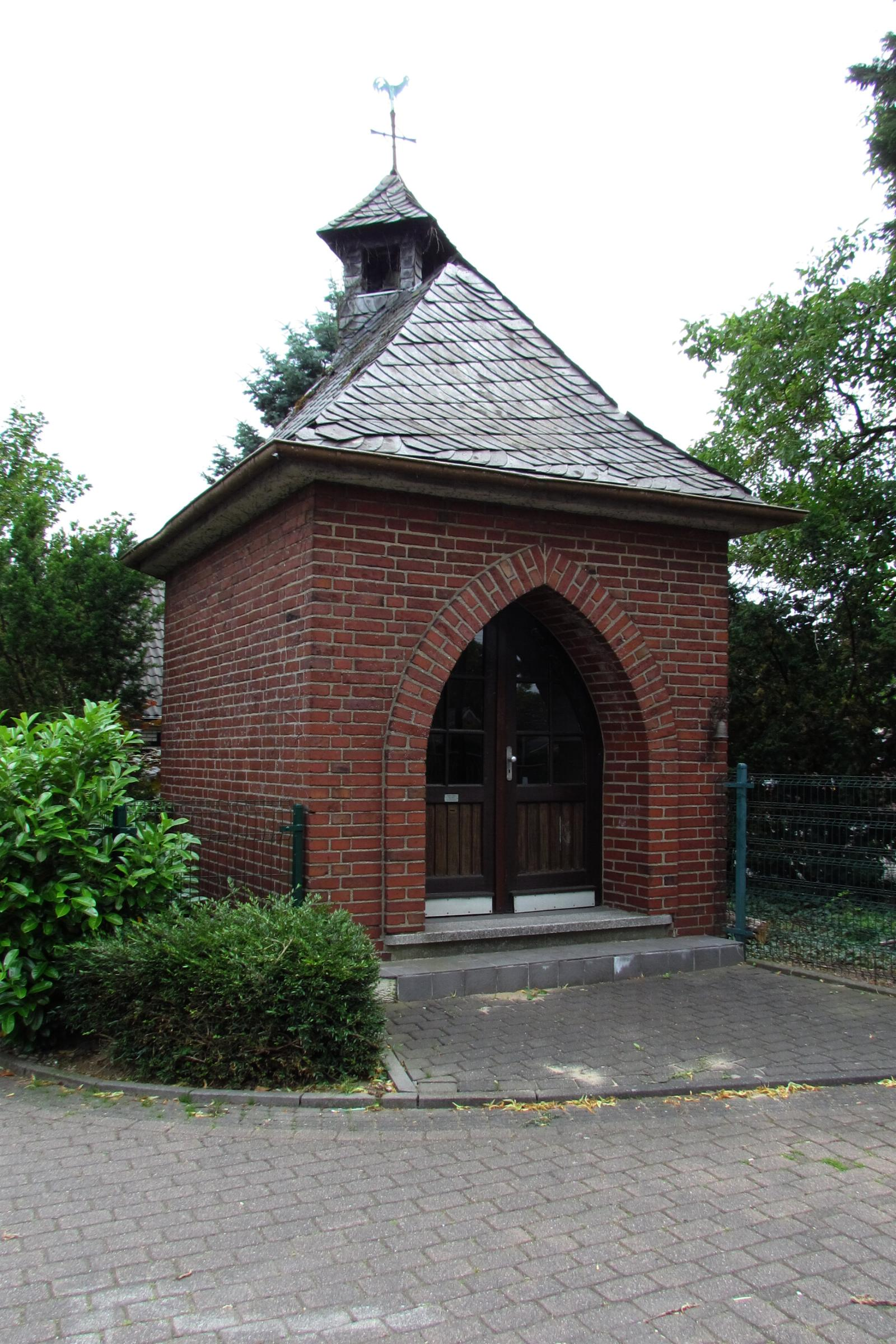 This is a photograph of an architectural monument.It is on the list of cultural monuments of Korschenbroich